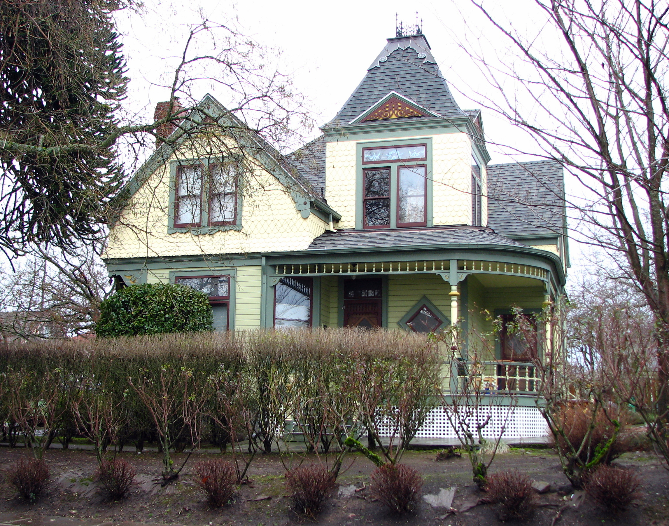 The historic Alfred J. and Georgia A. Armstrong House (built 1894), located at 509 Northeast Prescott Street in Portland, Oregon, United States, is listed on the US National Register of Historic Places.